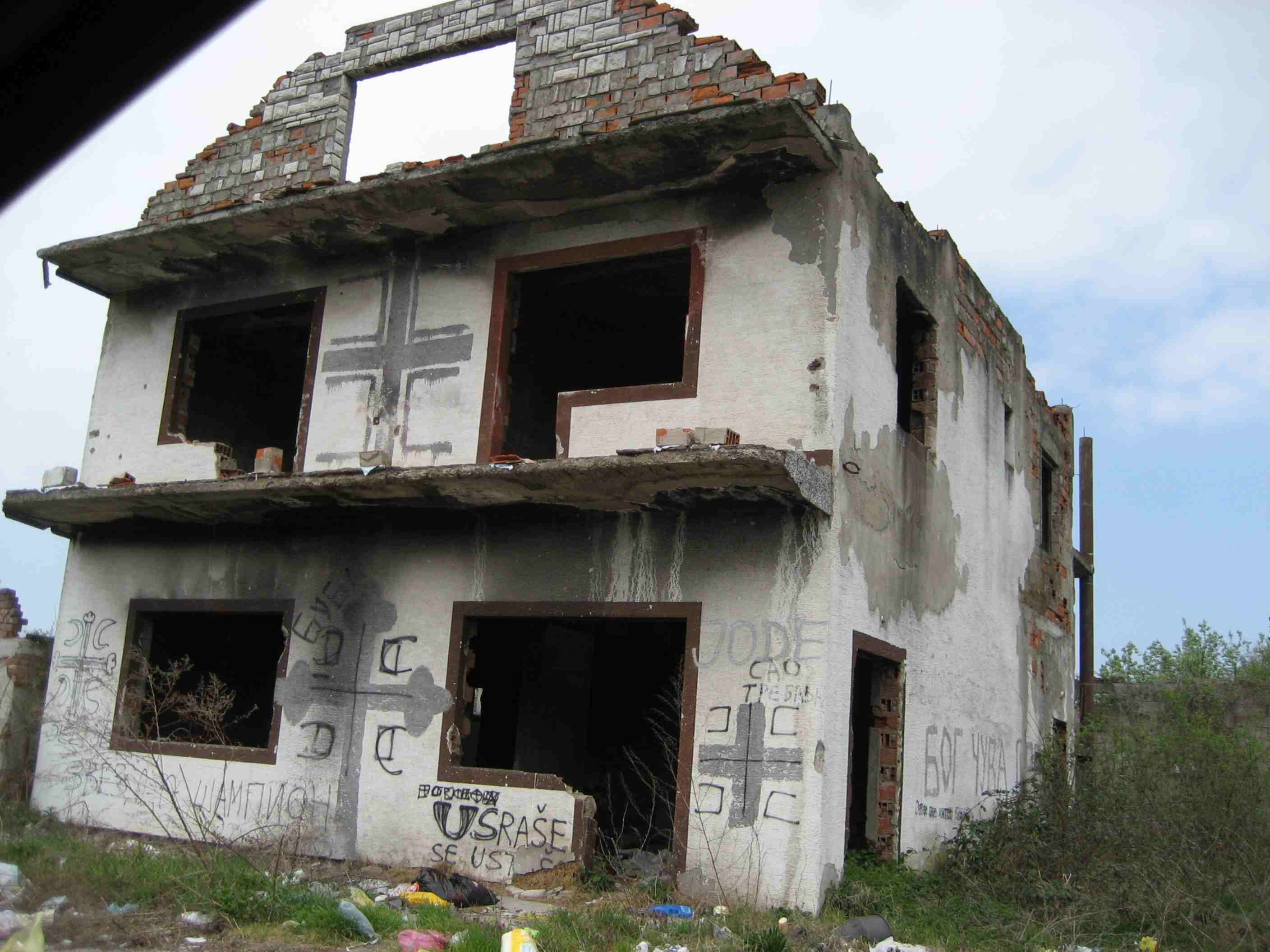 A destroyed house in Bosnia and Herzegovina, located in the Republika Srpska near the border to Croatia in the surroundings of Brod, with Serb nationalist symbols and messages written on the walls. There's a Serbian cross drawn, with the four C's symbol. Message in Latin letters: "Usraše se Ustaše", referring to the fact that the terrified Croat inhabitants of the home fled away. Cyrillic text: " Red Star champion", "God protects Serbs", "SAO (Serb Autonomic Oblast) Treba?a". Typical marking of conquested territory by humiliating the opponent through dishonoring of its property.